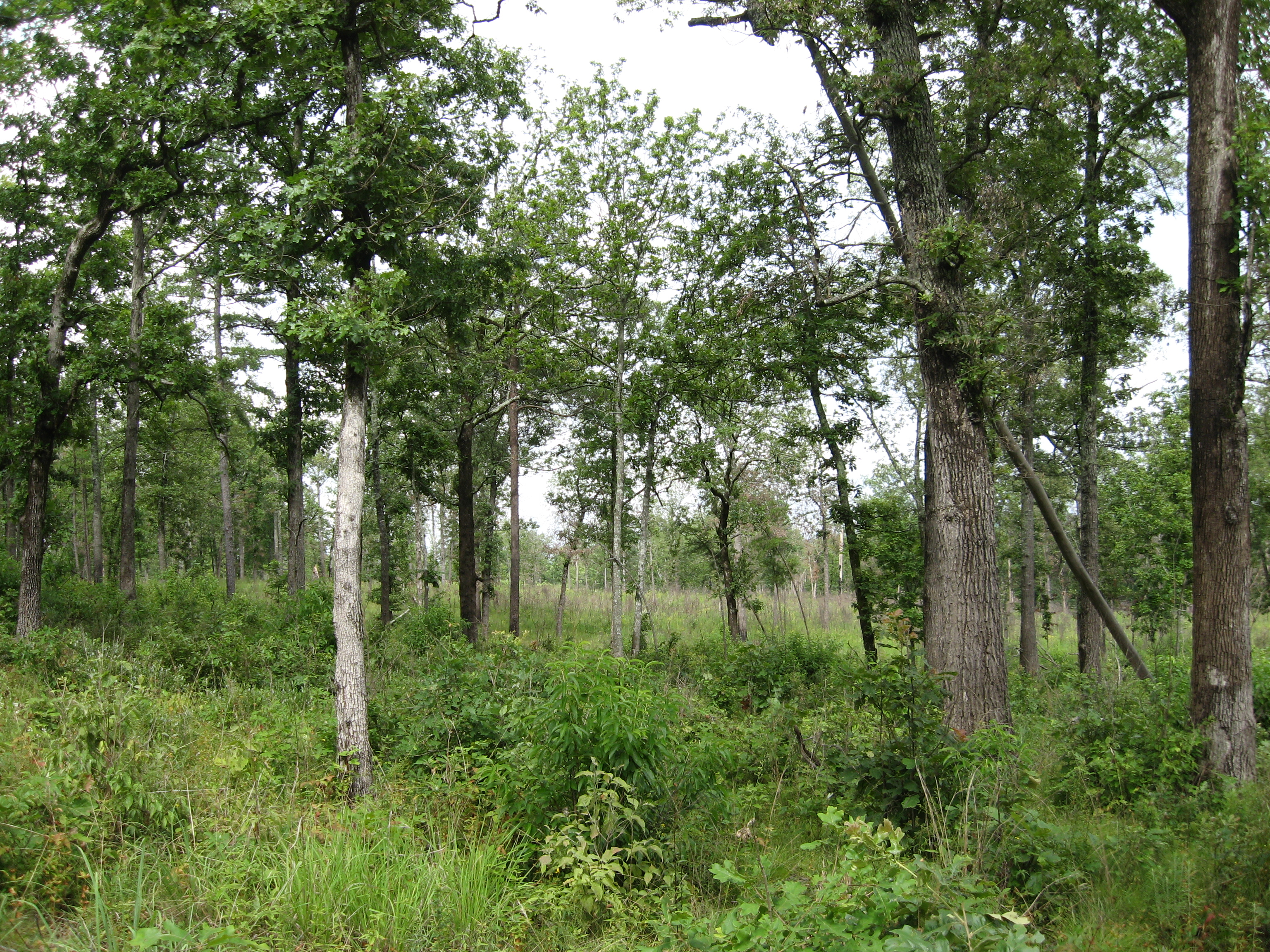 Savanna at Catoosa Wildlife Management Area with much Post Oak, Cumberland County, Tennessee.